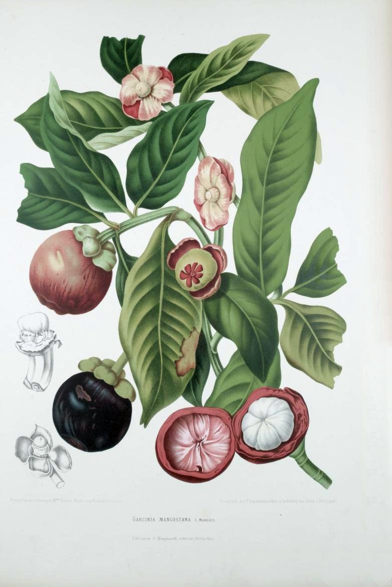 Garcinia mangostana L. from "Fleurs, Fruits et Feuillages Choisis de l'Ile de Java" [Selected Flowers, Fruit and Foliage from the Island of Java]